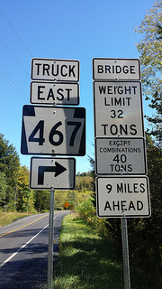 Truck PA 467 near Brushville, PA